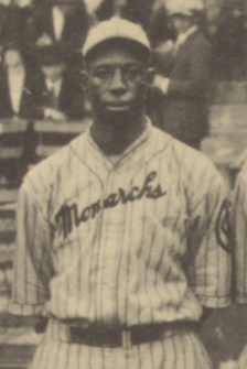 Bill McCall at the 1924 Colored World Series. LOC states here that there are no restrictions on use of this image, therefore it is PD. This file has been extracted from another file: 1924 Negro League World Series.jpg